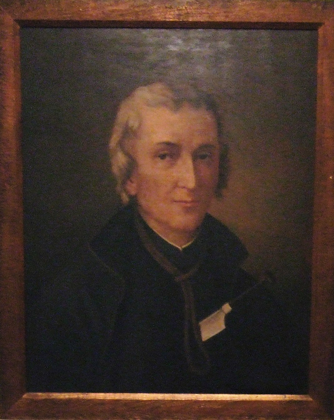 Llantarnam Abbey: Portrait of Saint David Lewis SJ (alias Charles Baker) after an engraving by Alex Vost, Prague, 1683